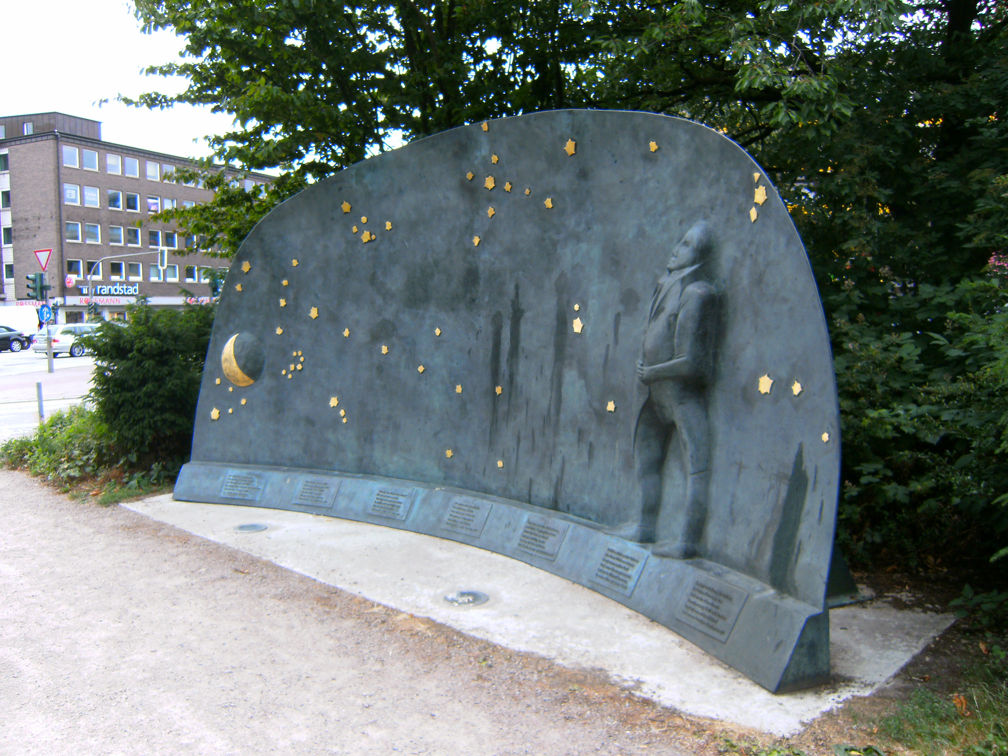 Hamburg, Germany, Historischer Friedhof Wandsbek (historical cemetery): Monument by Waldemar Otto for writer Matthias Claudius, view to Wandsbeker Allee